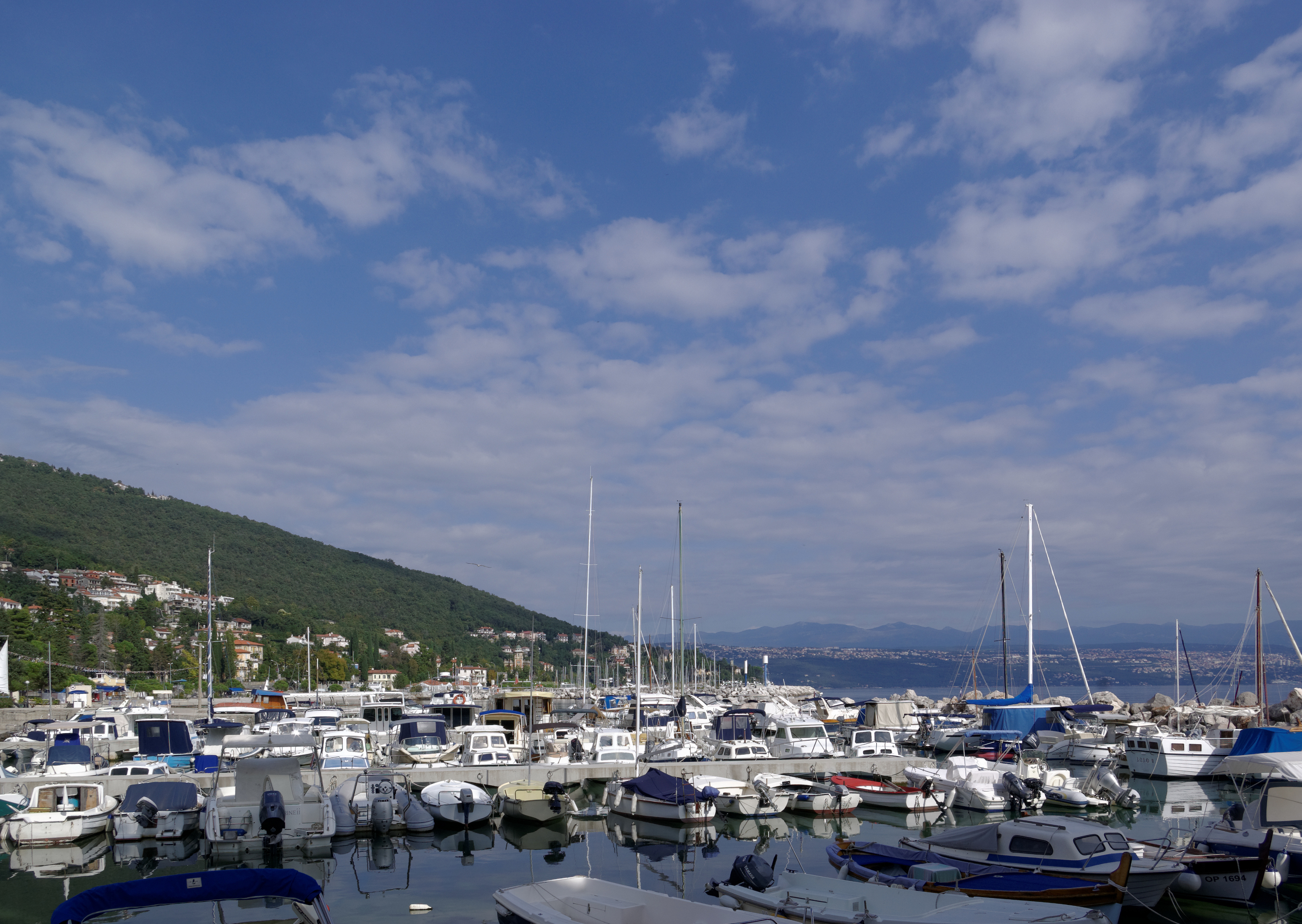 Croatia, Opatija - Ičići, marina